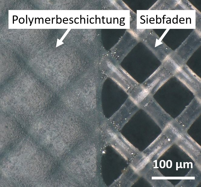 The picture represents a micrograph of a screen printing screen showing the uncoated "open mesh" area and the polymer sealed "closed" area.